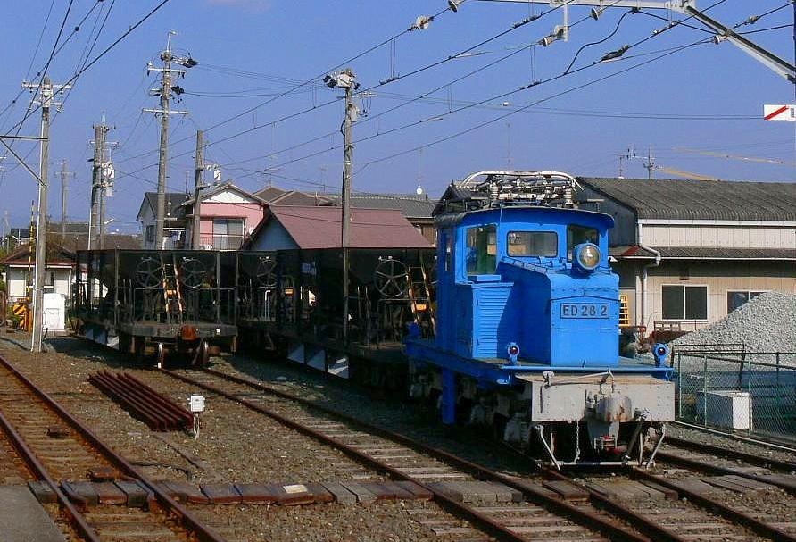 Enshu Railway ED282 Electric locomotive(Japan).